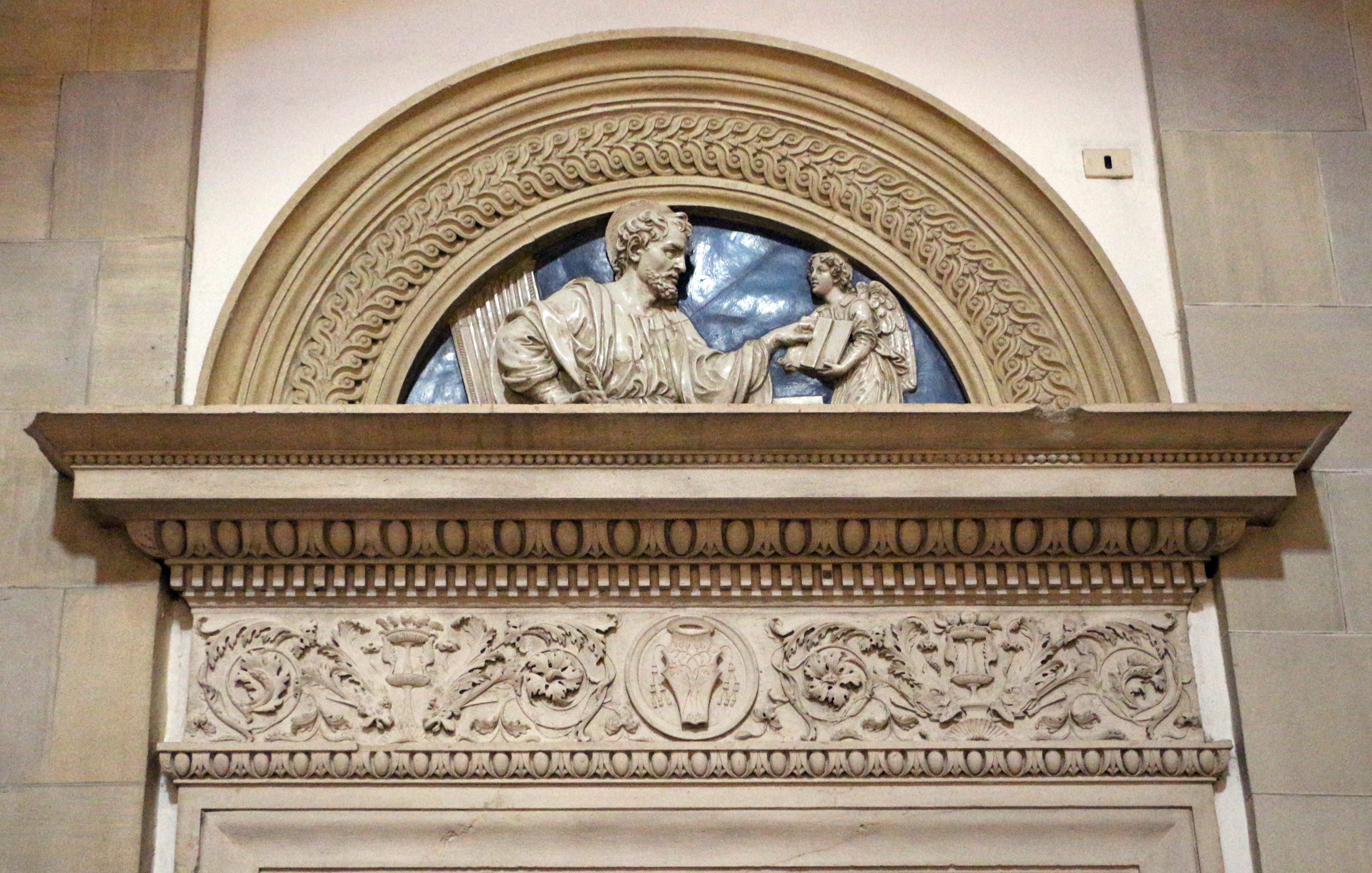 Santuario della Santa Casa (Loreto) - Interior